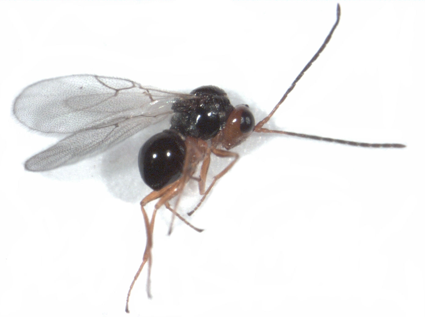 adult female Alloxysta victrix